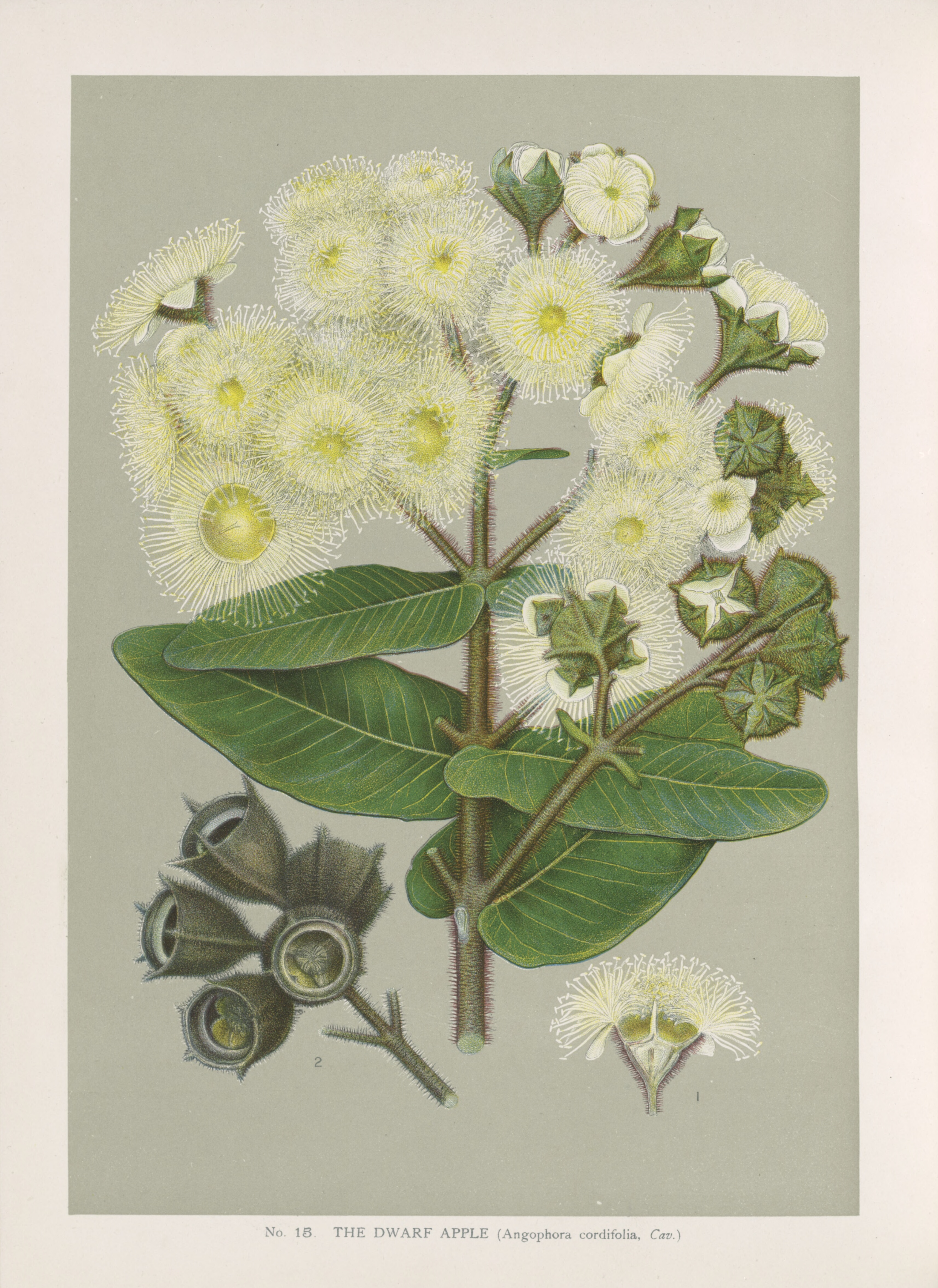 Angophora hispida (Dwarf Apple) From: The Flowering Plants and Ferns of New South Wales - Part 4 (1896) by J H Maiden. NSW Government Printing Office.